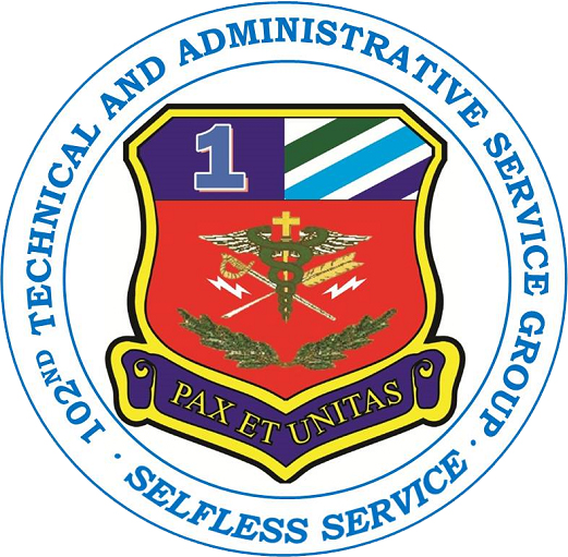 102 TASG Unit Seal.